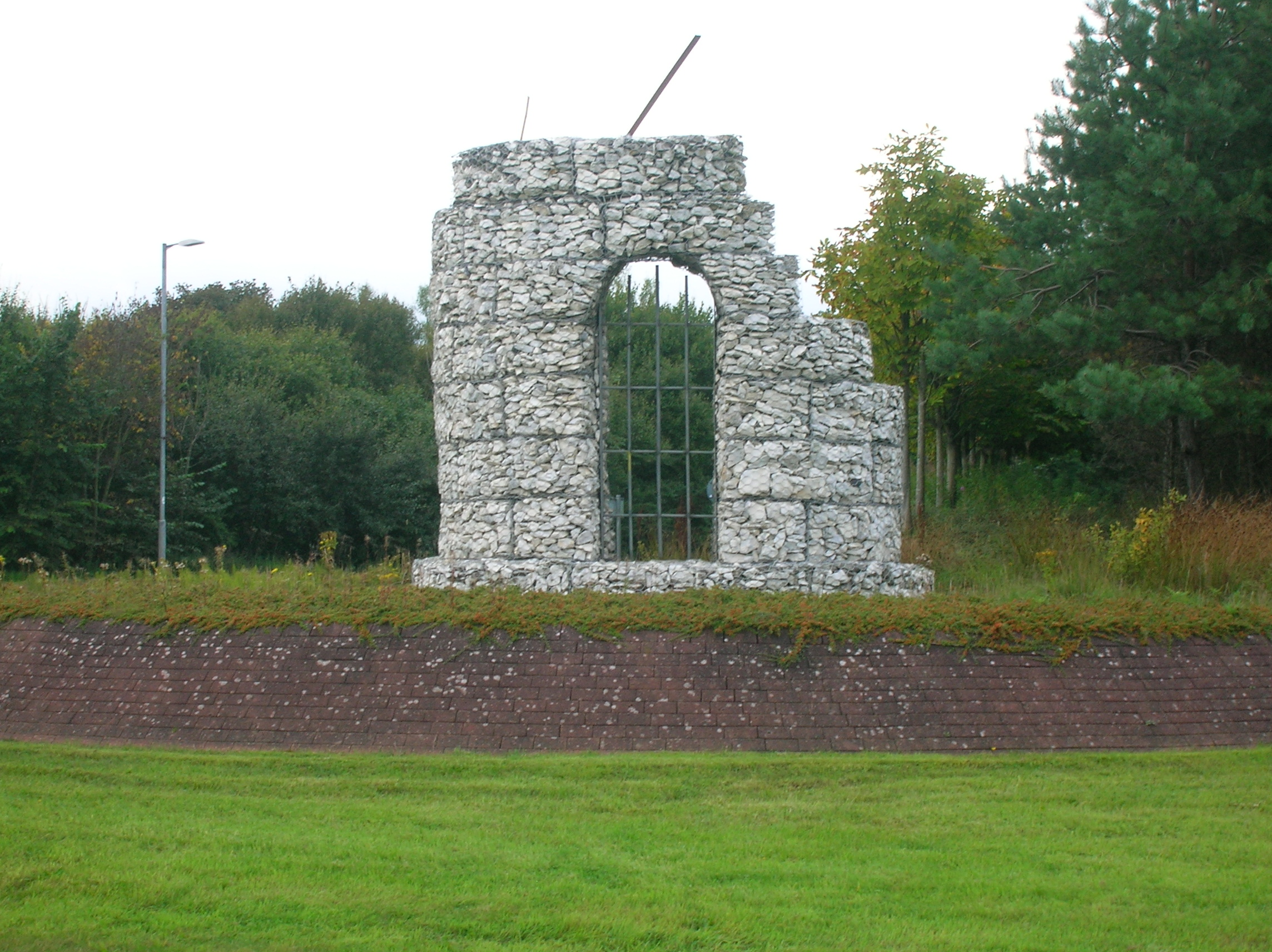 The 'castle' at the Tournament Park roundabout near Eglinton Country Park, Irvine, North Ayrshire, Scotland. Rosser 20:55, 8 September 2007 (UTC)